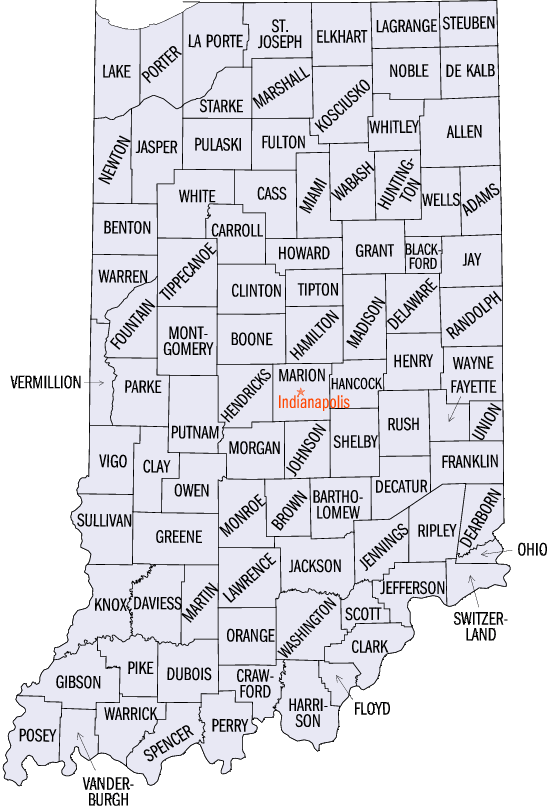 Map of from the Census Bureau